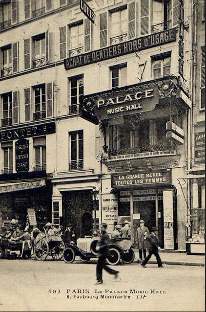 Le Palace Music-Hall, 8 rue Faubourg Montmartre, printed by LIP as a carte postale.